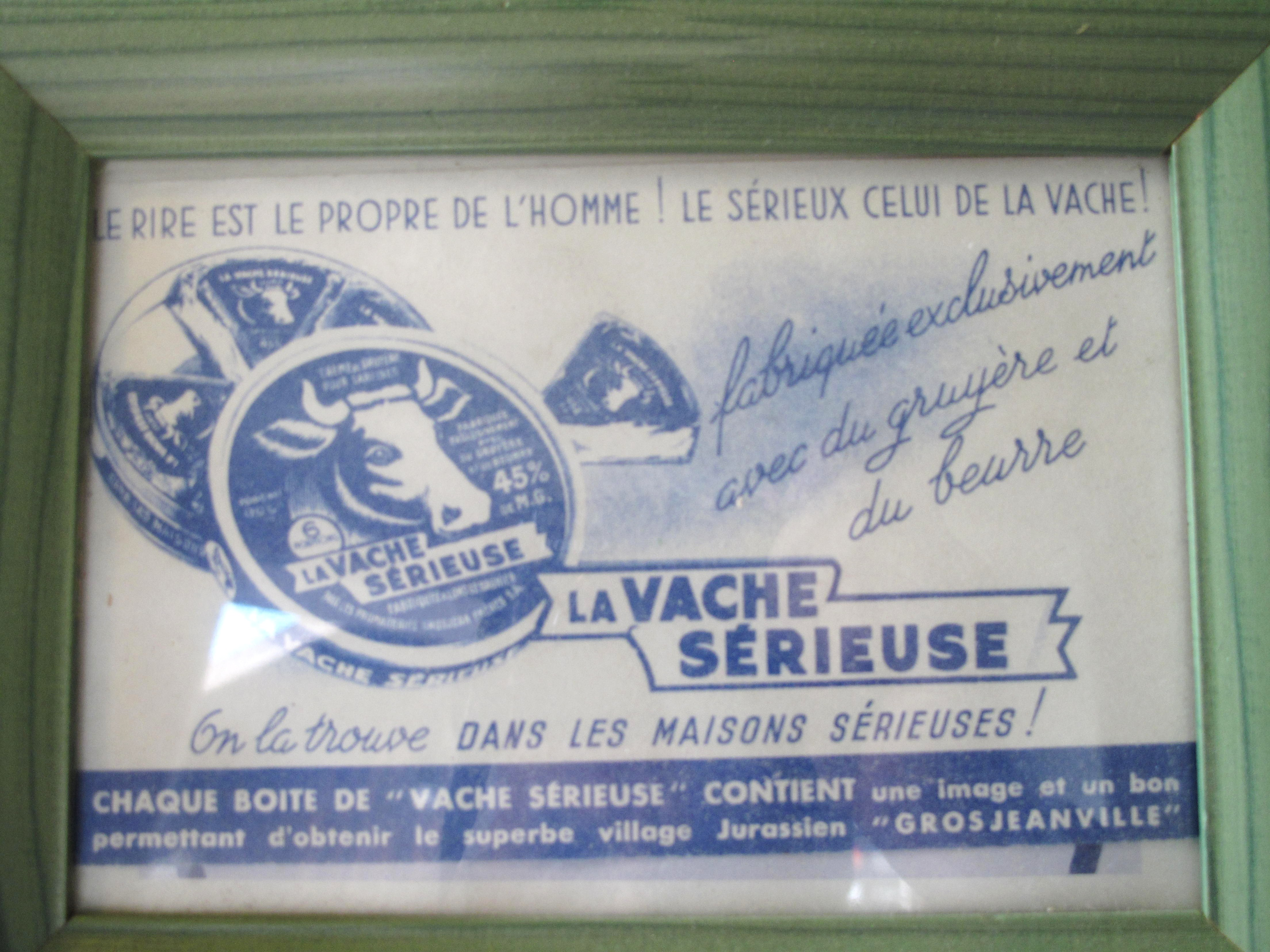 Advertisement for the French cheese mark "La Vache Serieuse" (=the serious cow). This mark was created in 1926 to concurrence the well-known mark "La Vache qui Rit" (=the laughing cow). It disappered circa 1959.